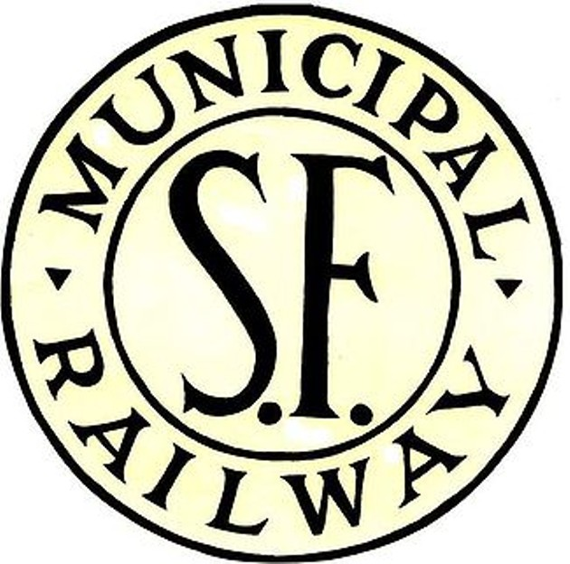 O'Shaughnessy logo of the San Francisco Municipal Railway, used from 1919 until the early 1980s